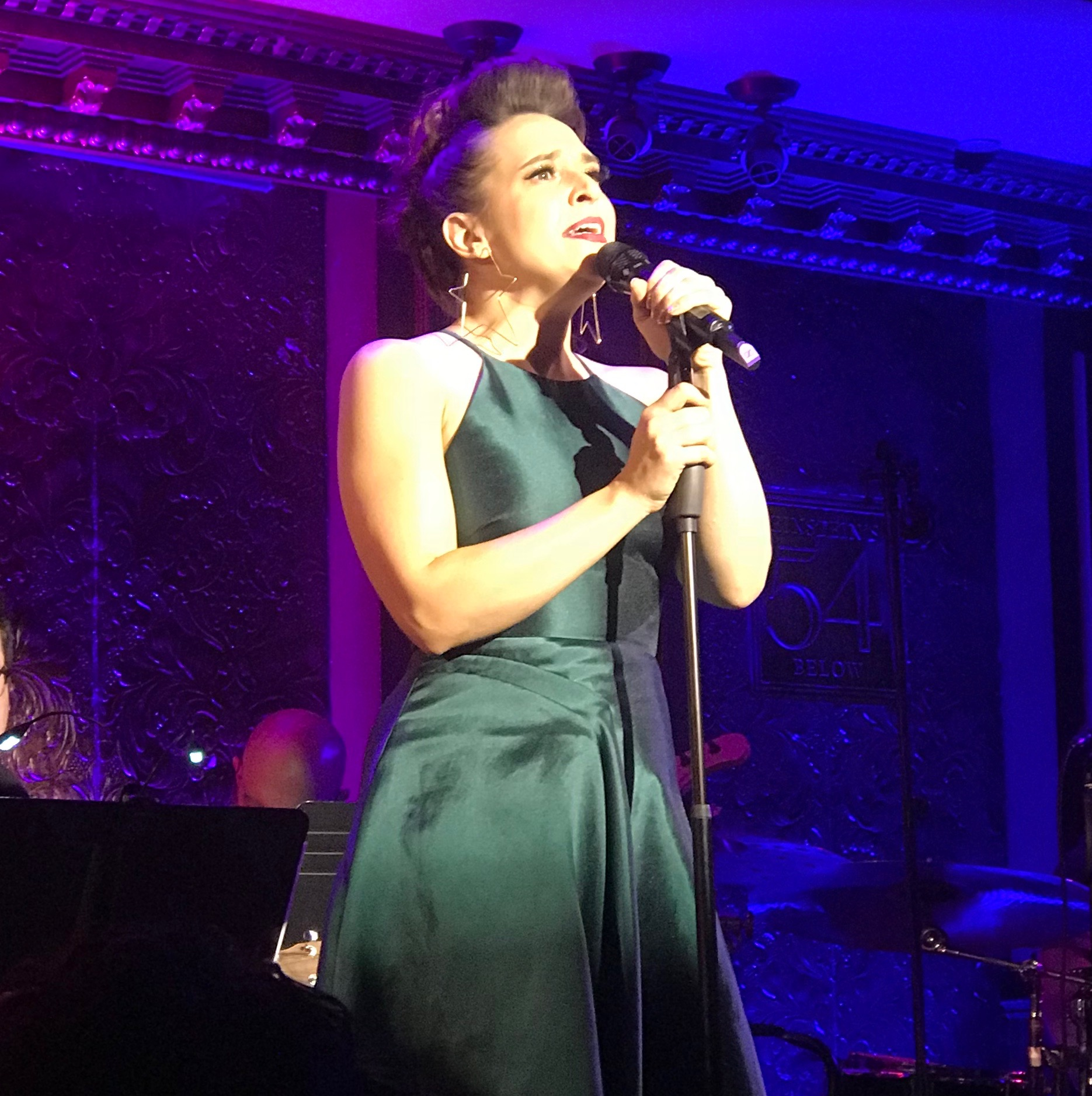 Jessica Vosk at 54 Below in New York City February 3, 2018